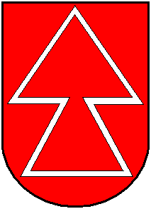 Coat of arms of Raperswilen, Canton of Thurgau, SwitzerlandEsperanto: Blazono de Raperswilen, Kantono Turgovio, Svislando